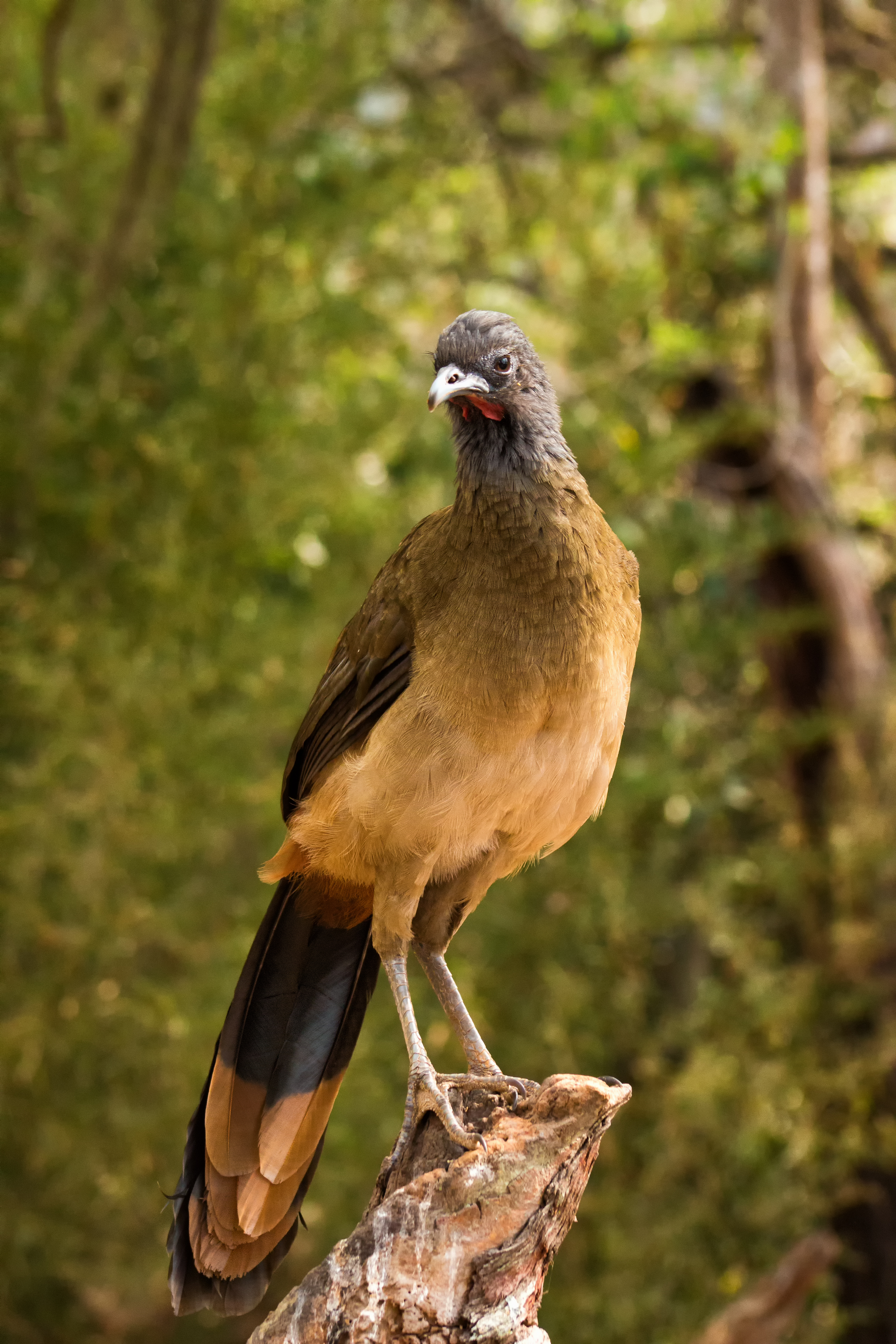 Rufous-vented Chachalaca (Ortalis ruficauda) in El Ávila National Park in northern Venezuela